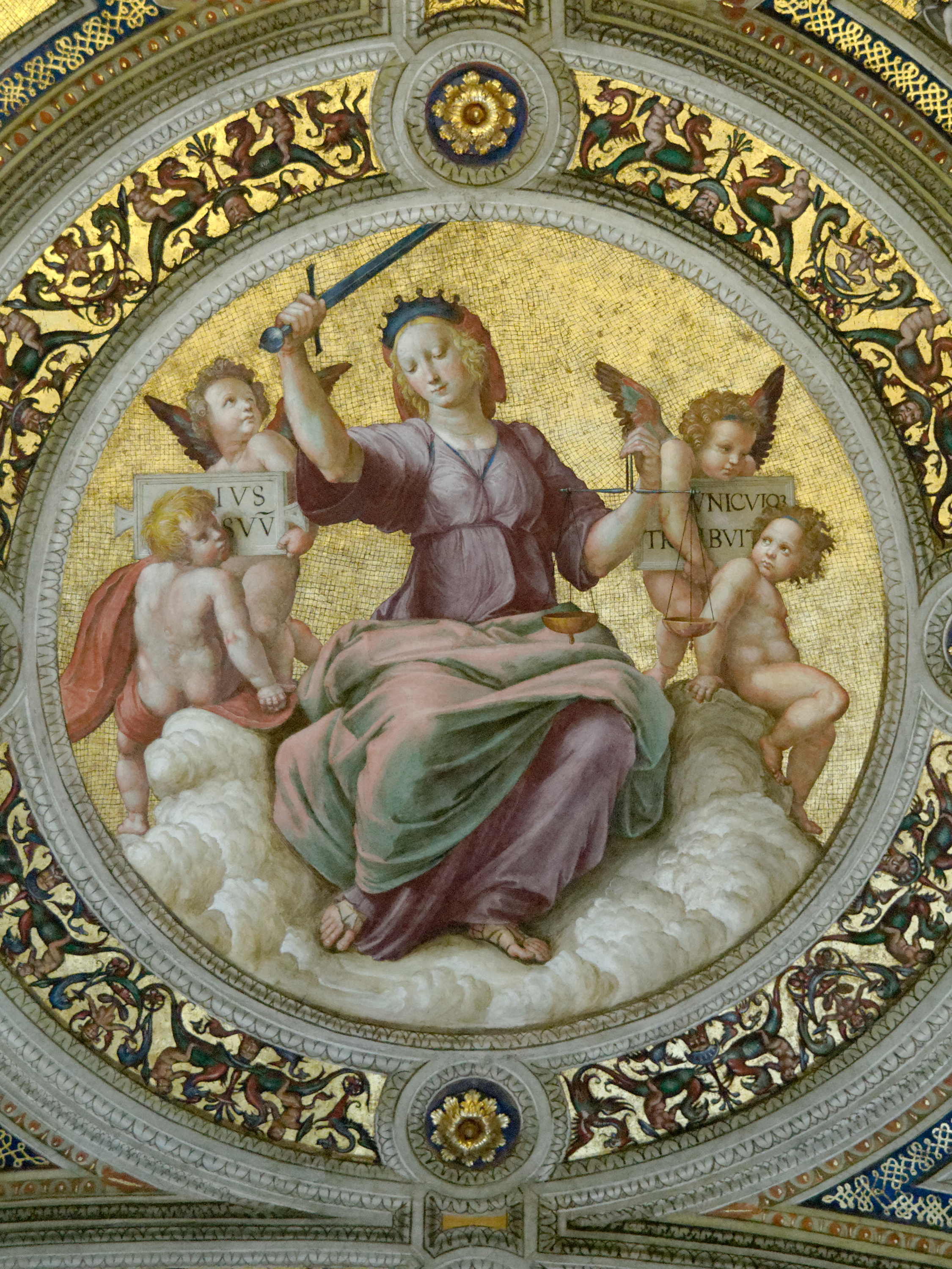 Roundel with an allegory of Justice.